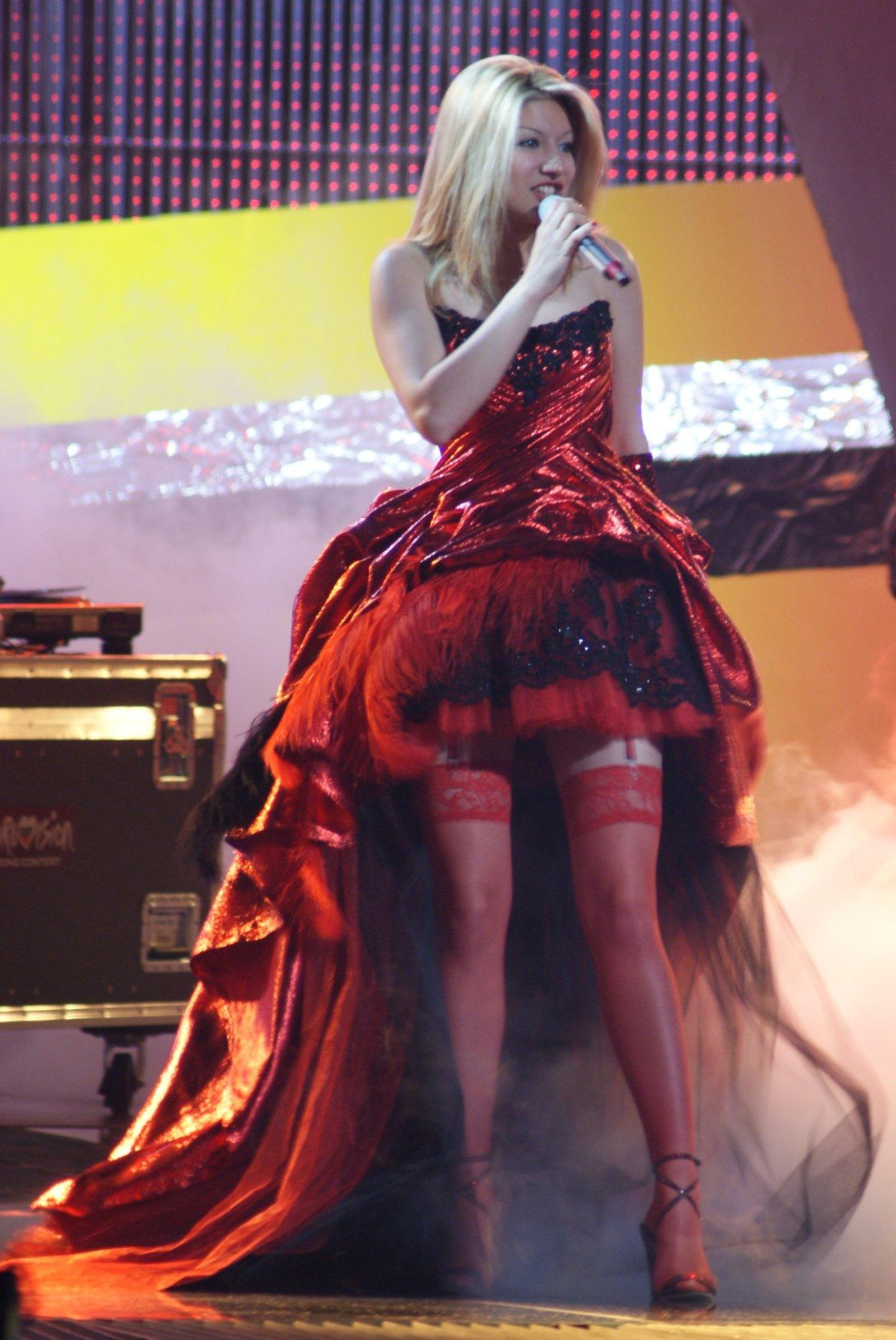 Bulgarian entry in the Eurovision Song Contest - Belgrade 2008.